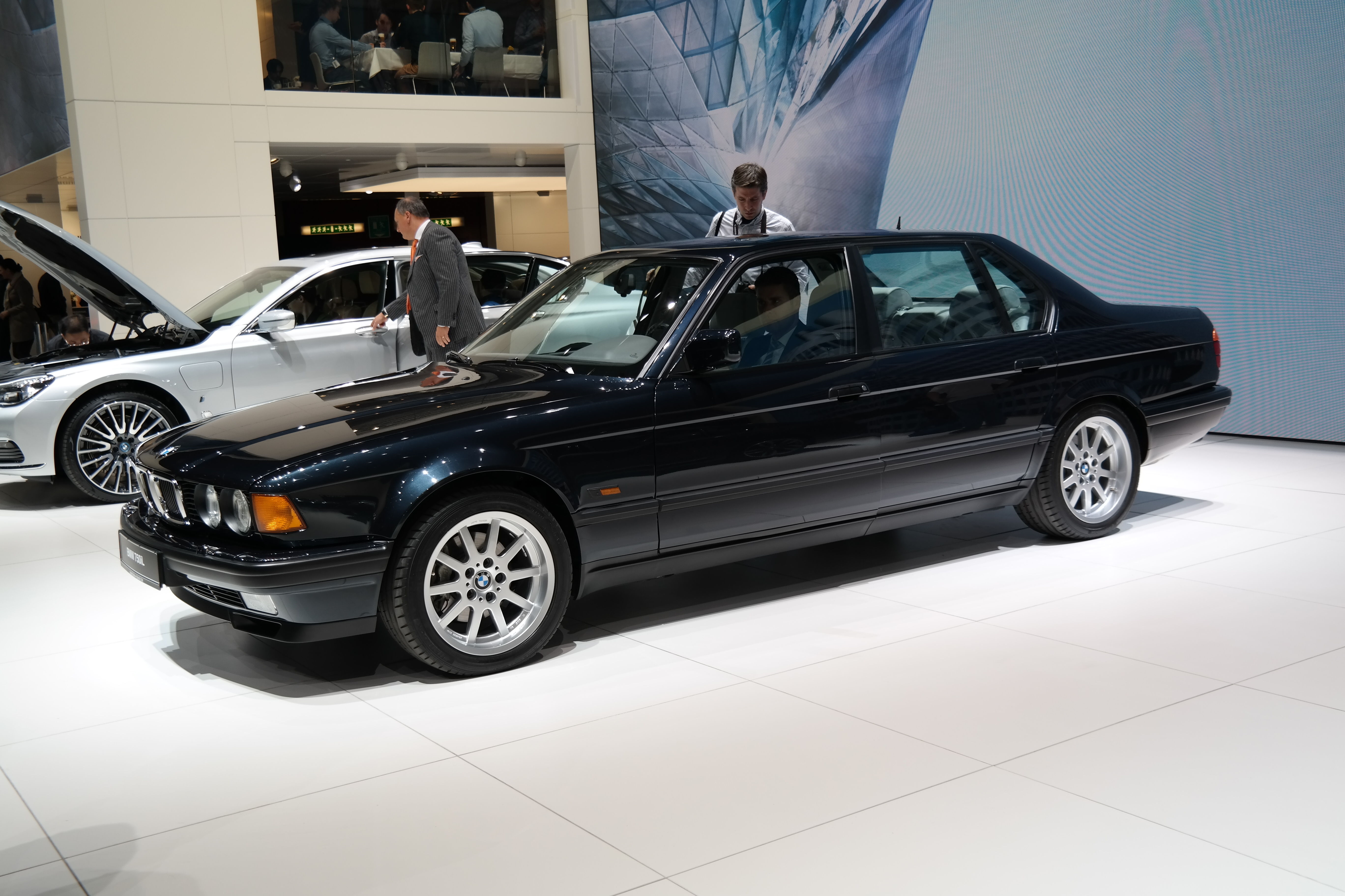 Geneva Motor Show 2016 (photo taken on the first press day)